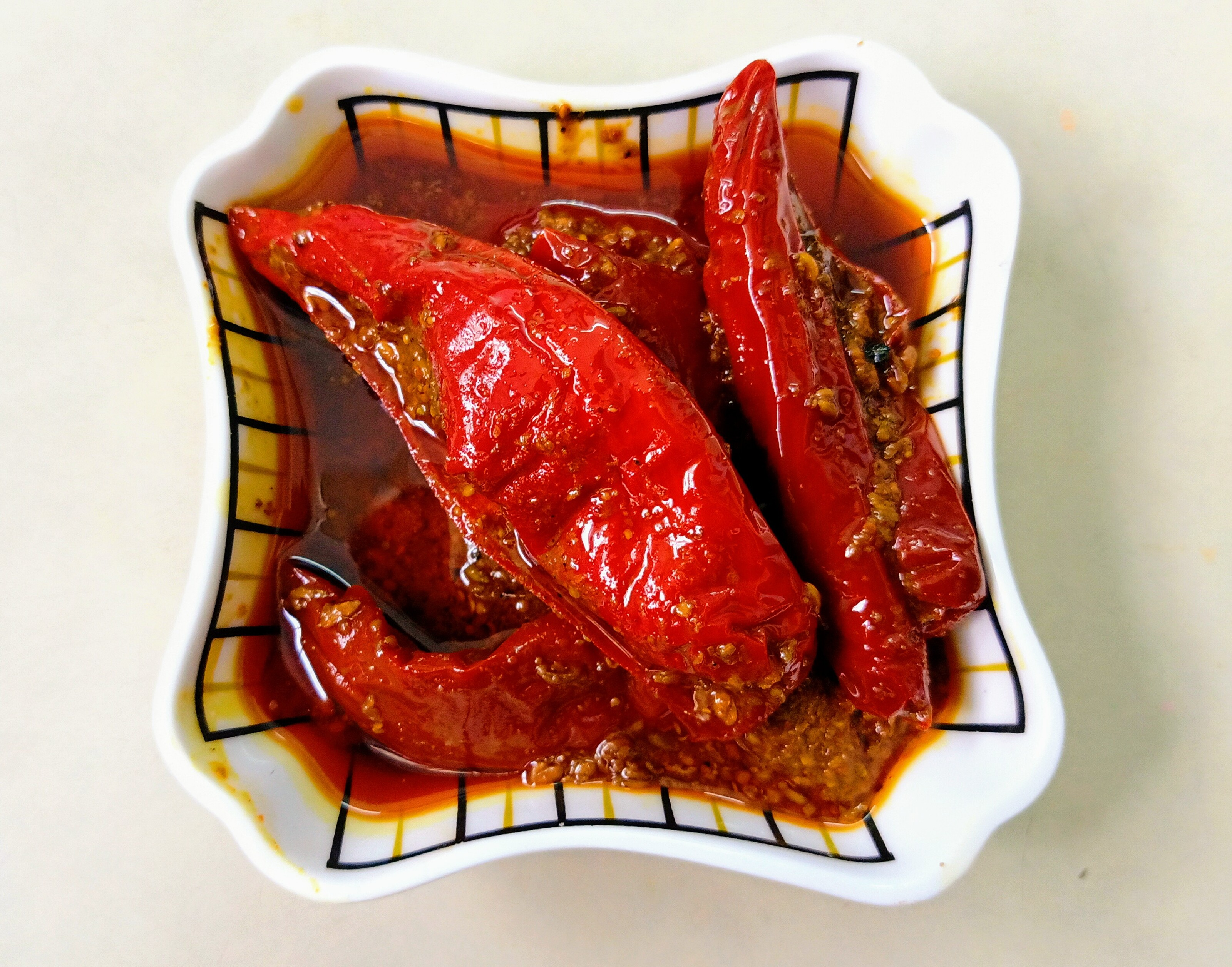 red chilli pickle in plate 2